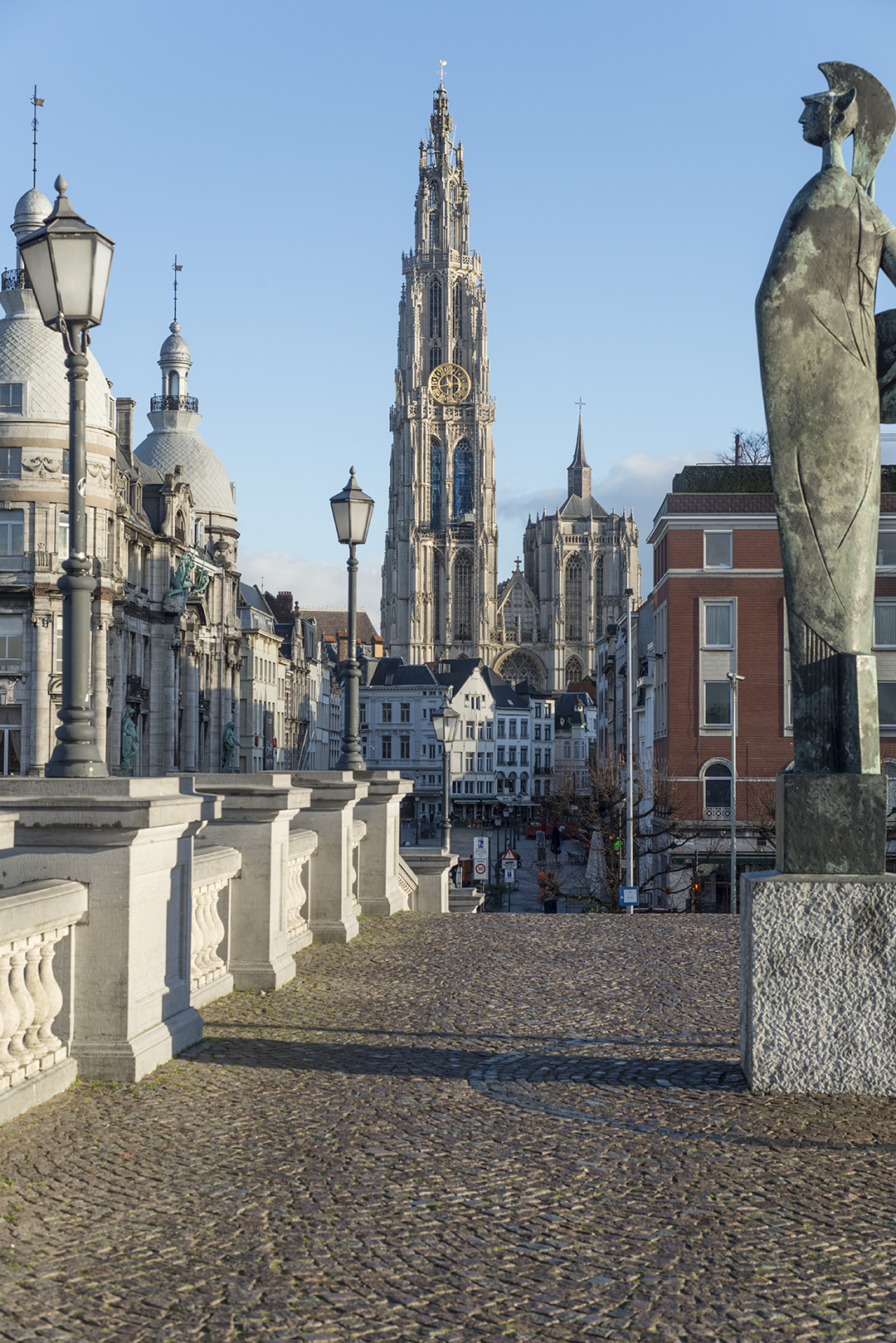 Antwerp, Cathedral Onze-Lieve-Vrouwe